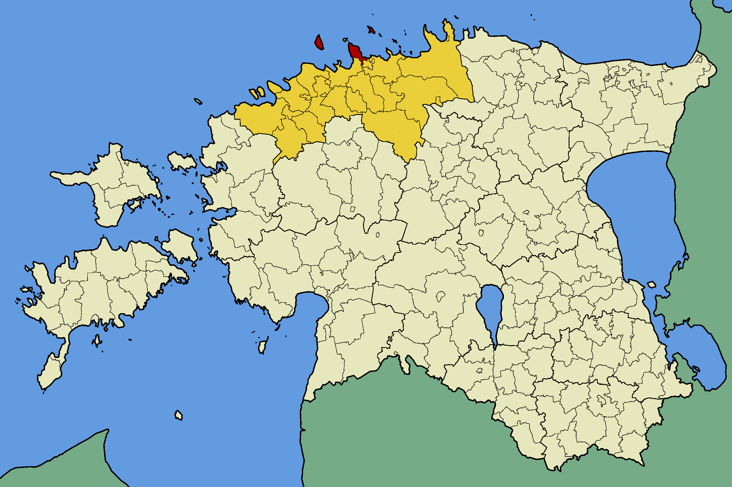 Map of Estonia with borders of municipalities (parishes). Harju county and Viimsi municipality (parish) emphasized.